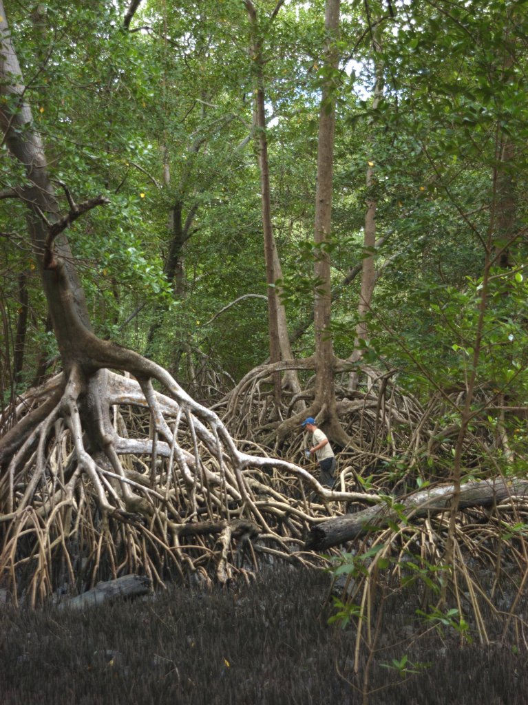 Red Mangrove (Rhizophora mangle) trees, mangrove forest on Ajuruteua peninsula, Bragança, Pará, Brazil